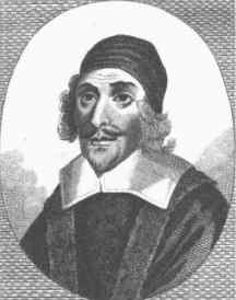 Thomas Scott [or Scot], regicide of King Charles I of England